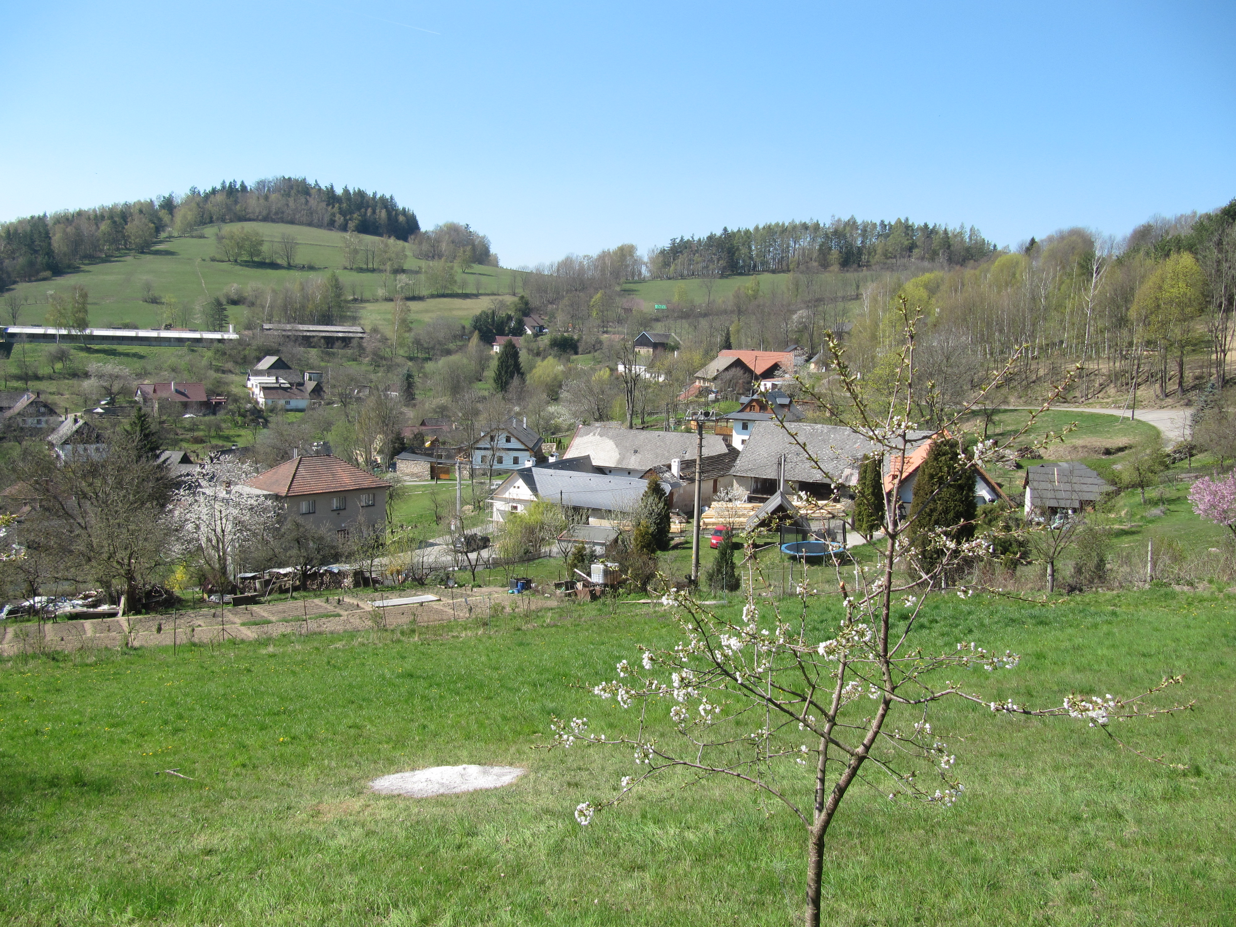 Dalečín, Žďár nad Sázavou District, Czechia, part Hluboké.